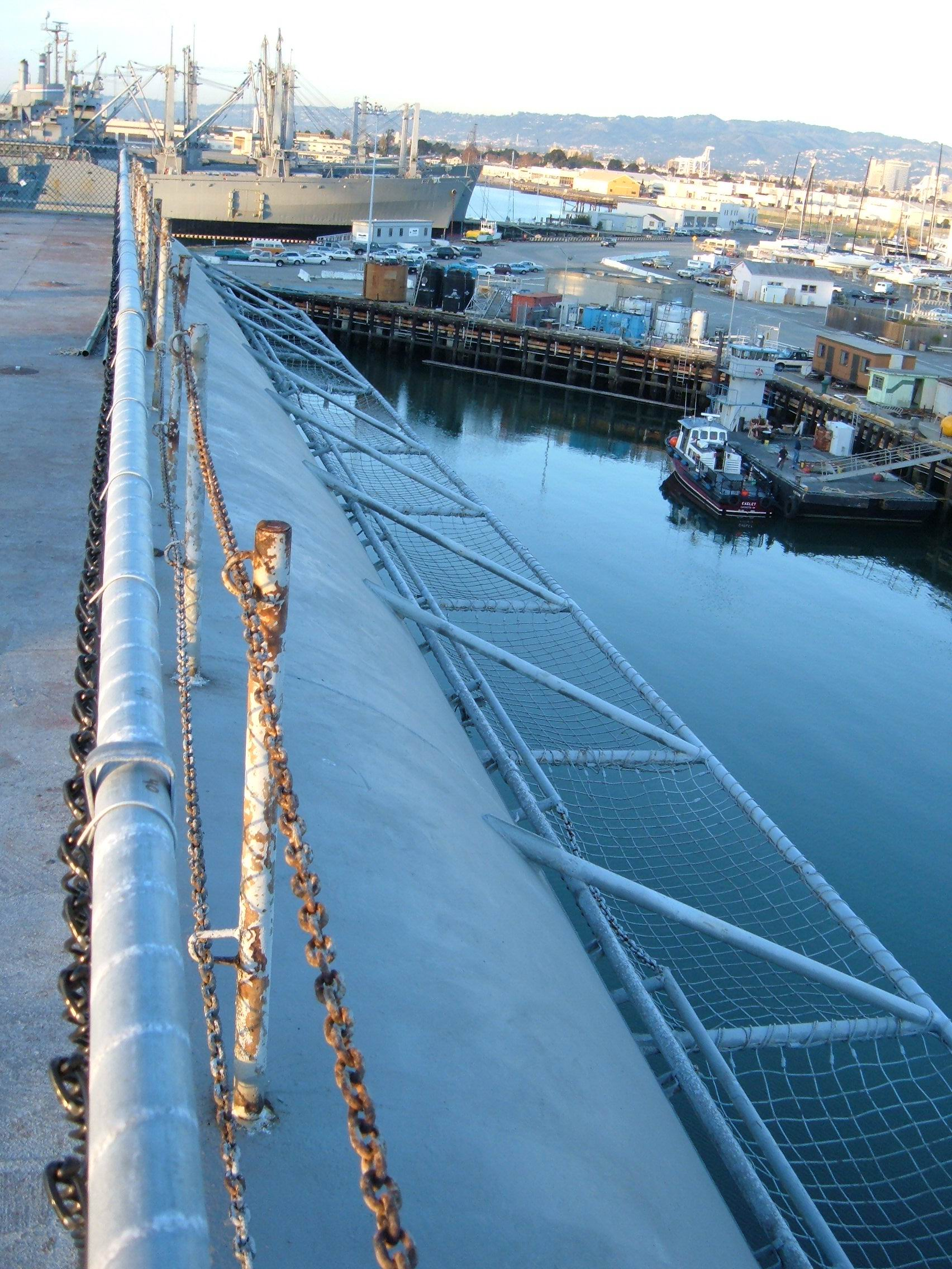 Safety net on the starboard side of the USS Hornet (CV-12)'s flight deck.